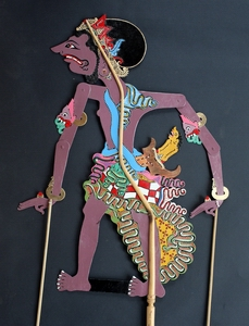 wayang kulit figure from the wayang shadow play Serat Menak Sasak